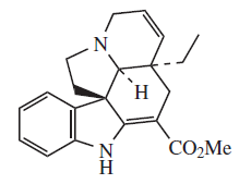 Tabersonine structure